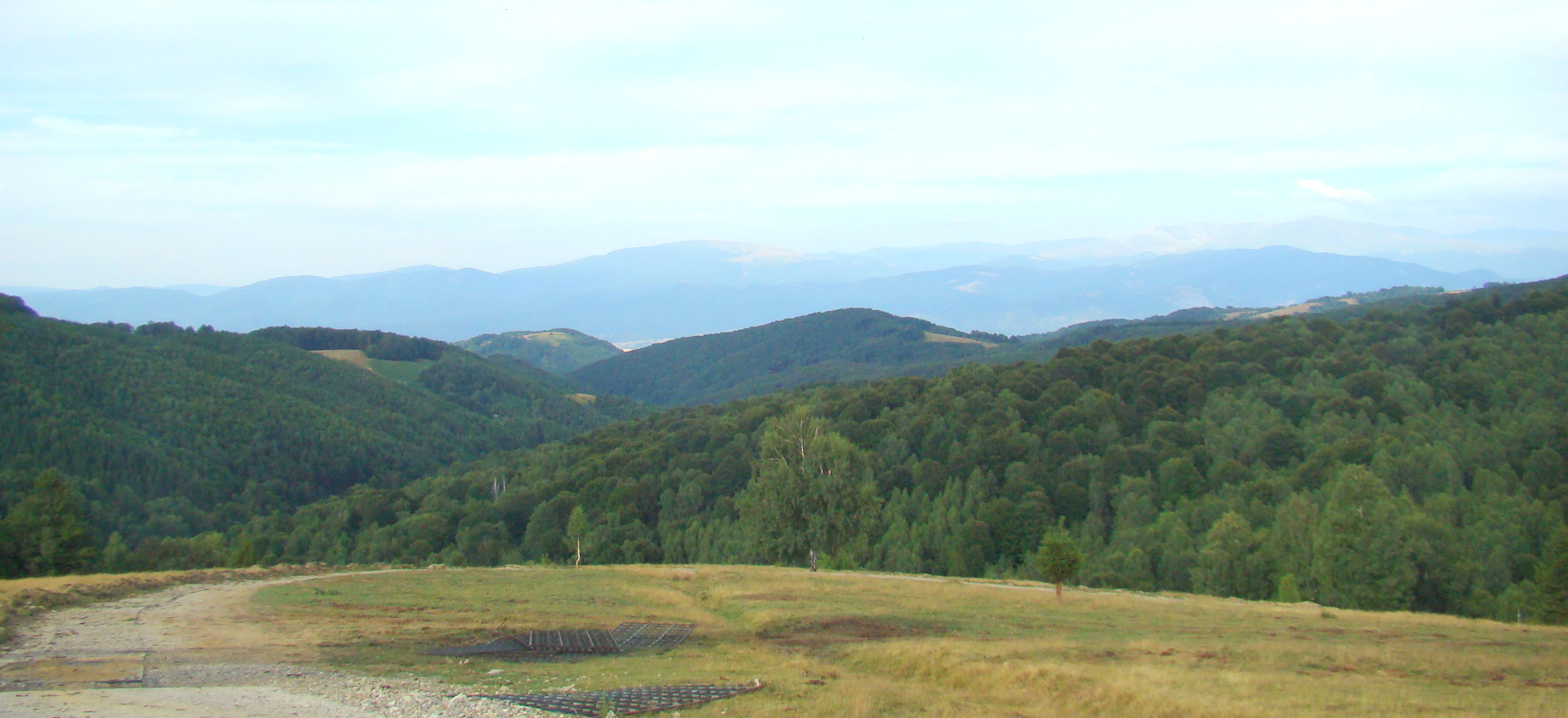 Transemenic, Caraş-Severin county, Romania